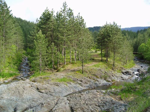 Prenja River on Ozren Mountain